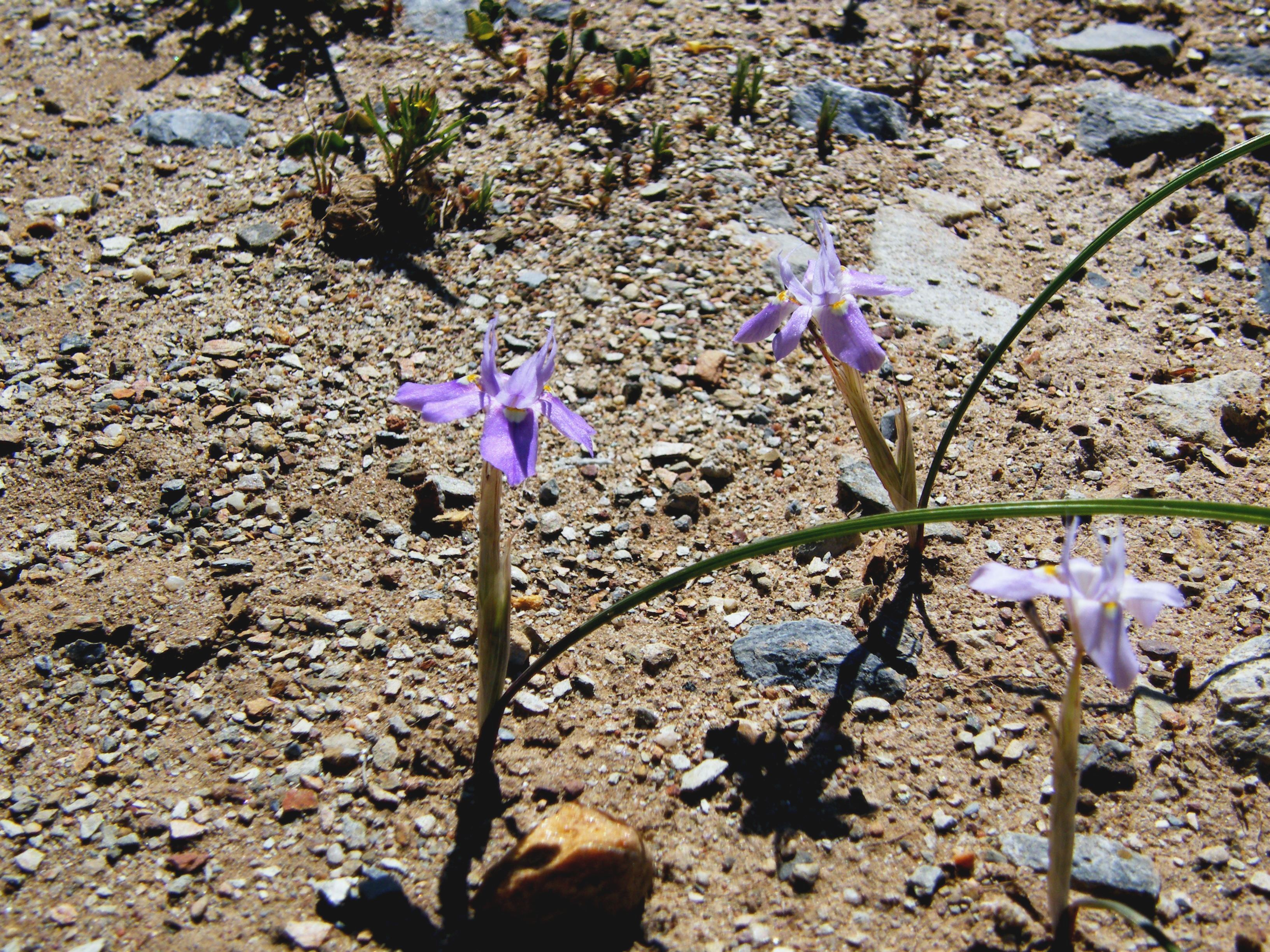 Moraea setifolia